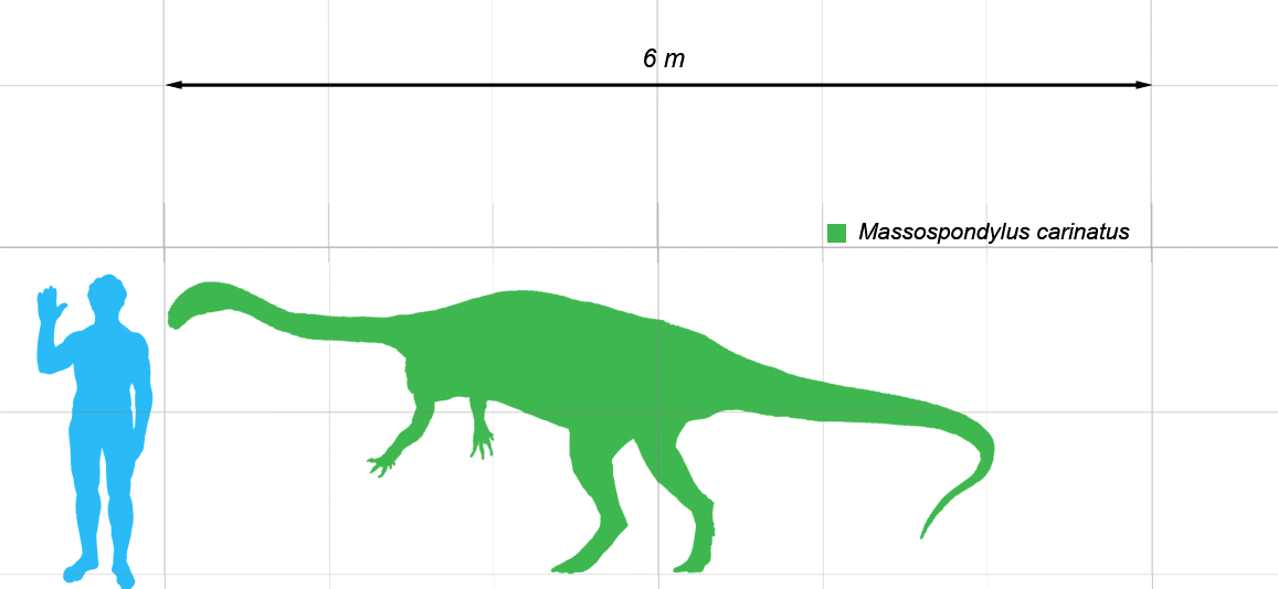 Size comparison of Massospondylus carinatus and a human. Adapted from an illustration by Frederick Spindler.